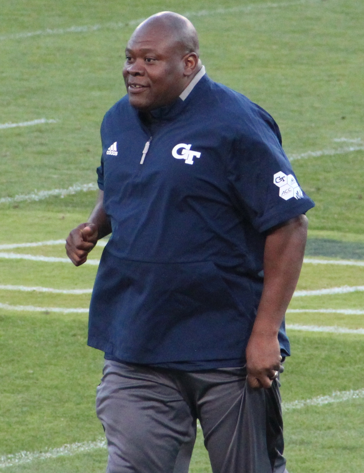 Derrick Moore in April 2019